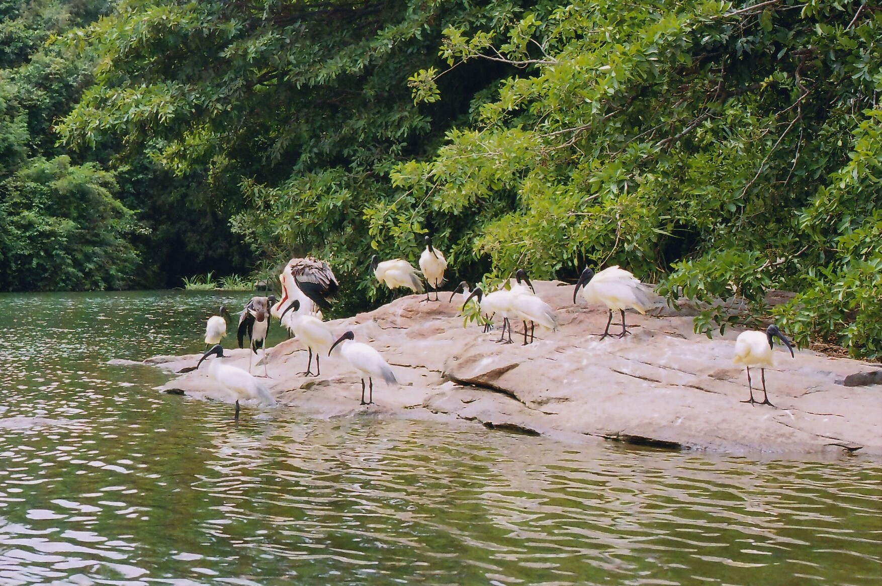 Black-headed ibis (Threskiornis melanocephalus) flock at Ranganathittu Bird Sanctuary